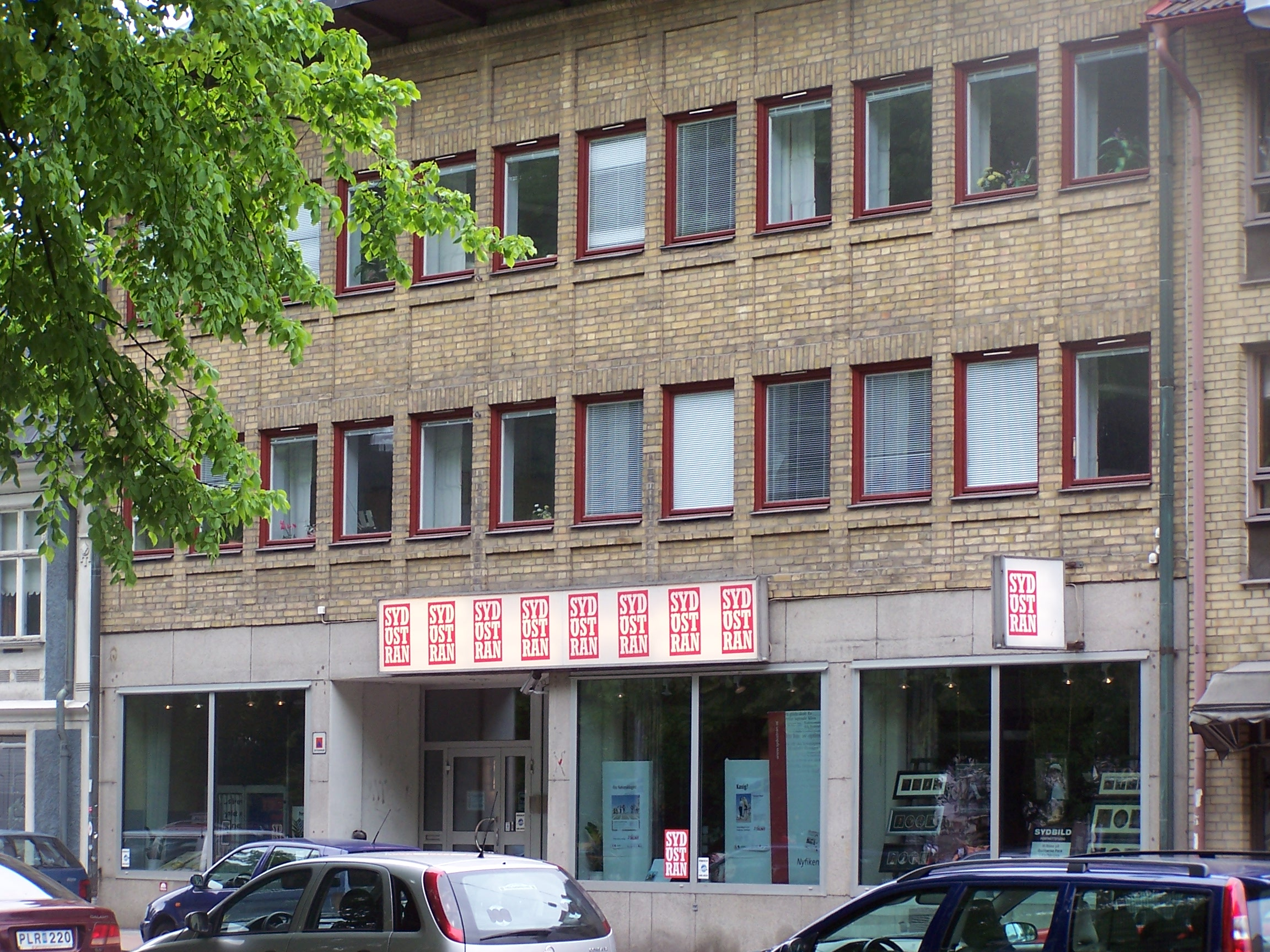 The Newspaper Sydöstran in Karlskrona..